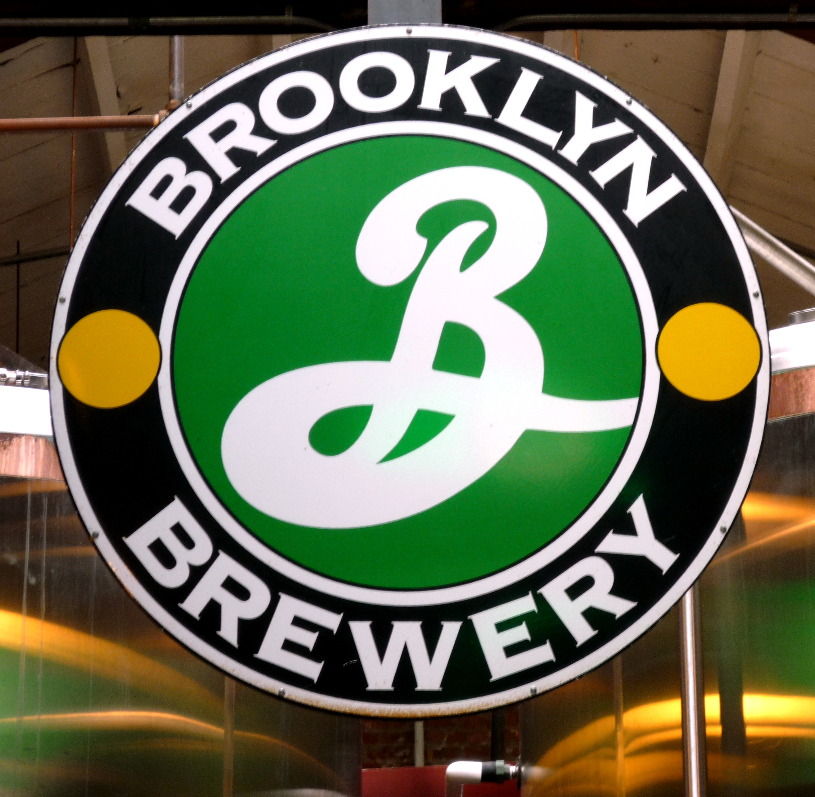 A sign bearing the company's logo hangs in the Williamsburg headquarters of the Brooklyn Brewery.